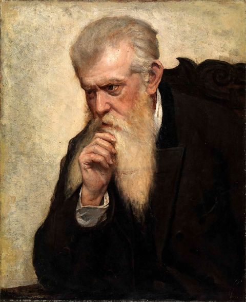 Captain Wheeler